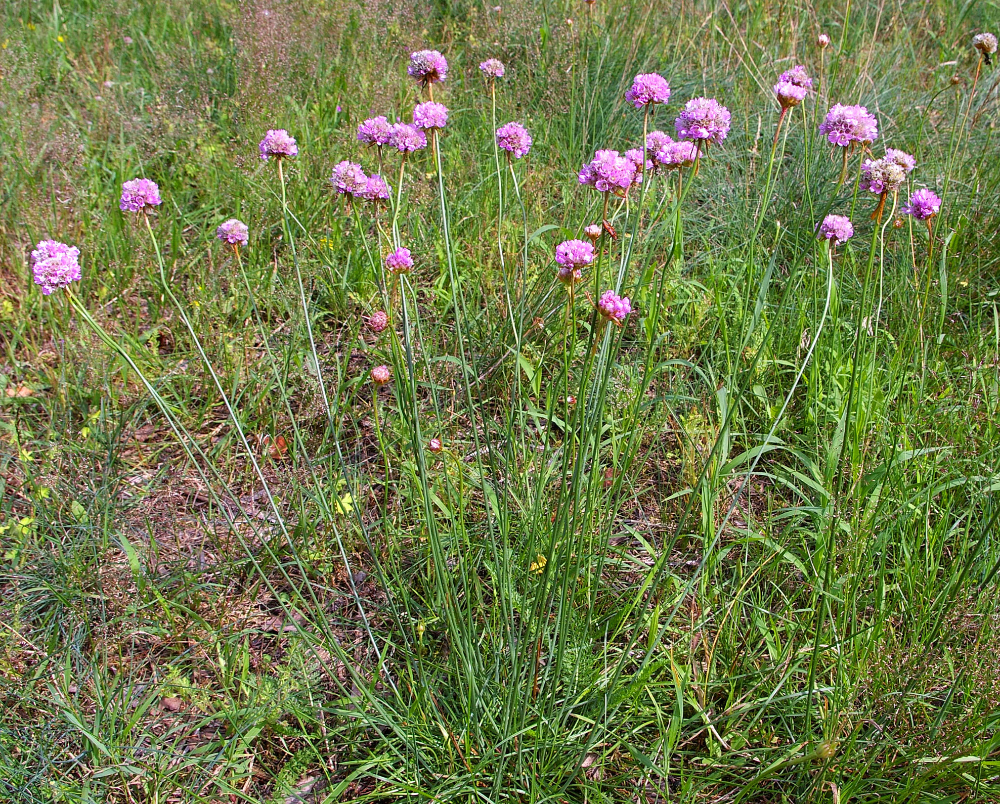 Flowering plant of Armeria maritima; this is the subspecies elongata.